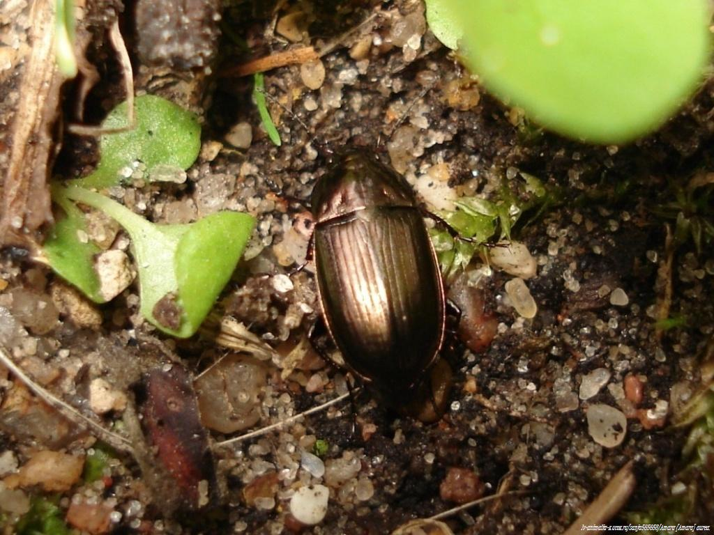 Amara aenea